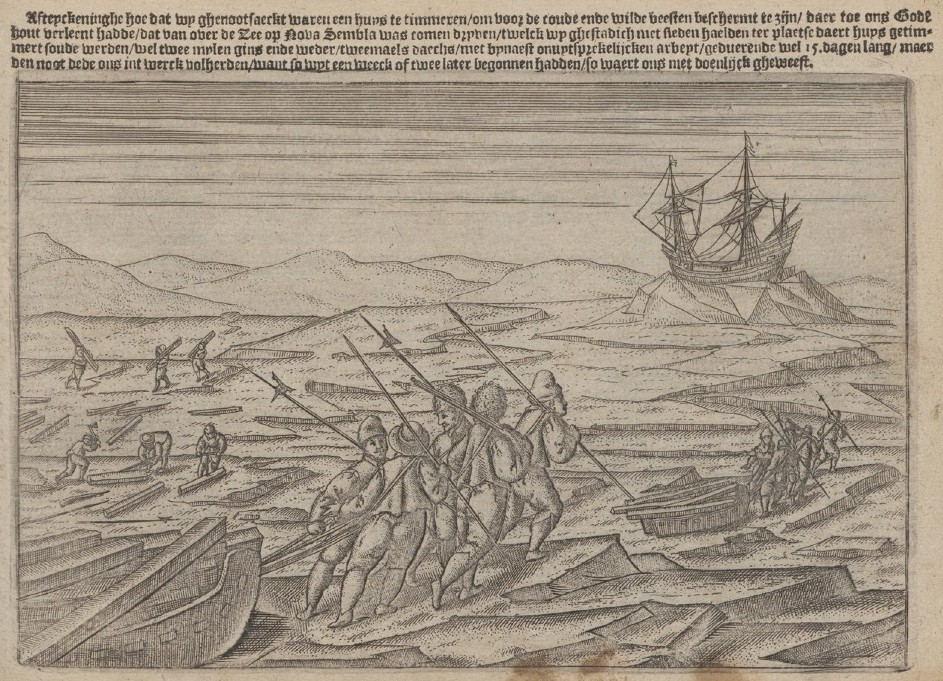 Illustration from Gerrit de Veer - Waerachtighe beschryvinghe van drie seylagien - edition published in 1605